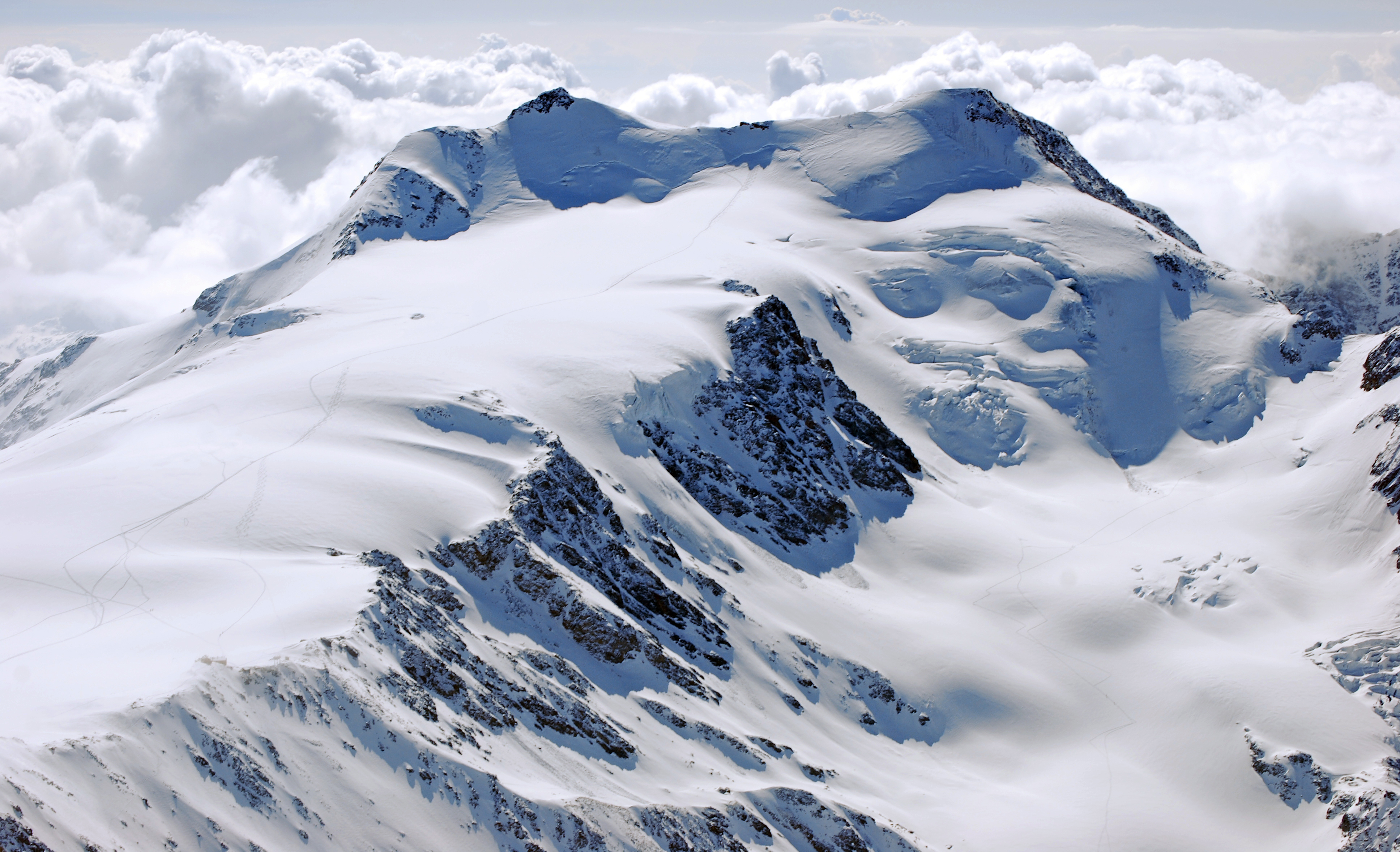 Cevedale and Zufallspitzen from Gran Zebru